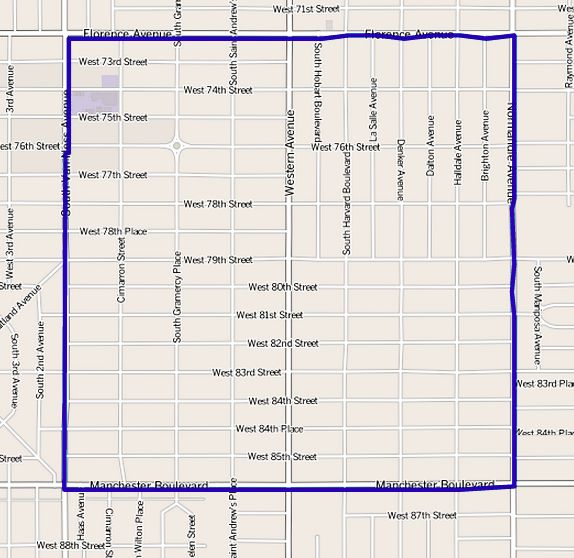 Boundary map of Manchester Square, as drawn by the Los Angeles Times Other information Boundary map as drawn by the Los Angeles Times on a CC-by-SA background. Note at bottom right of map on the L.A. Times website noted above says "CC-by-SA" (which gives permission to use the map). There is a link there to which explains the meaning thereof. The base map is credited to The Times spells all this out at